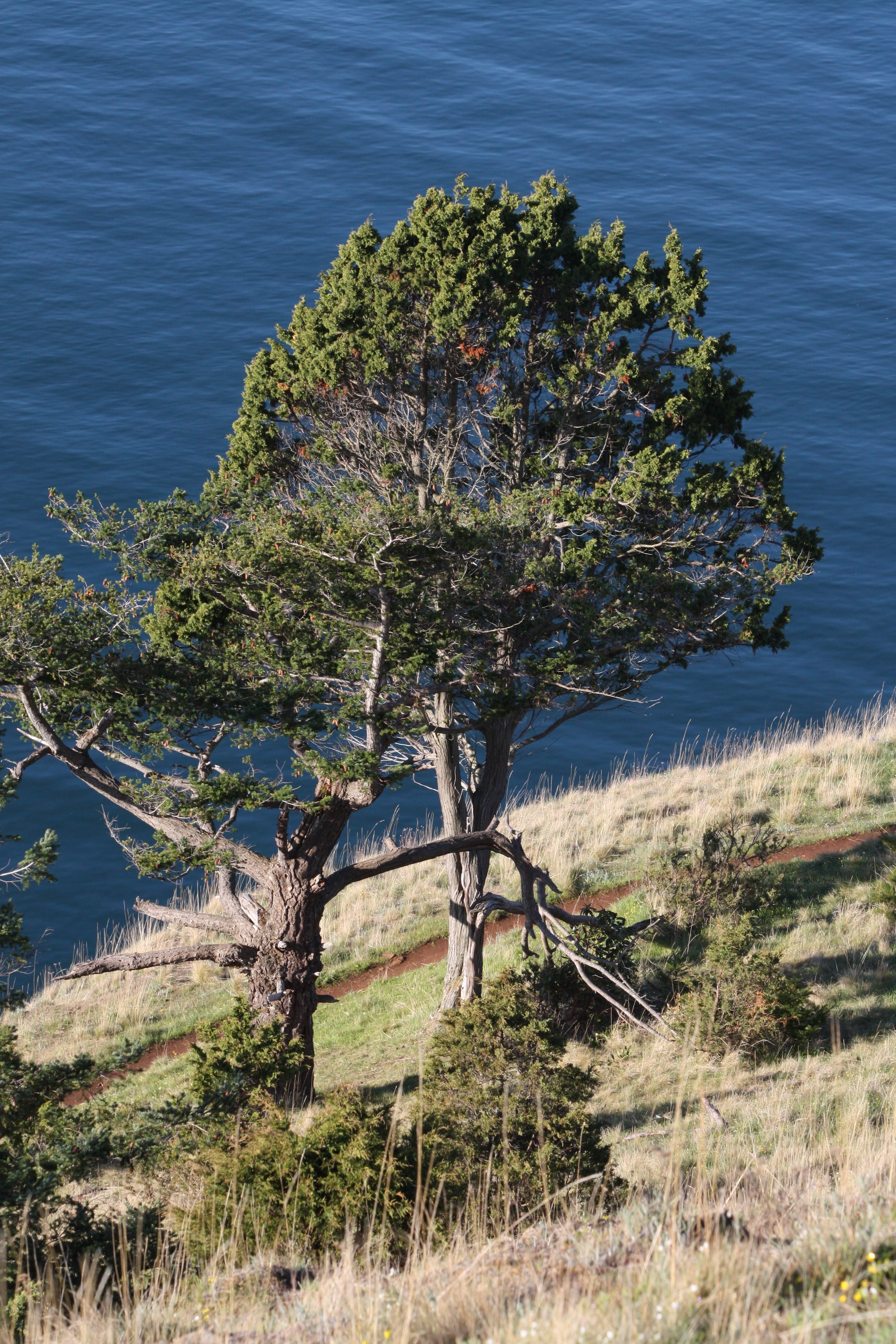 Seaside Juniper, Burrows Pass (behind)